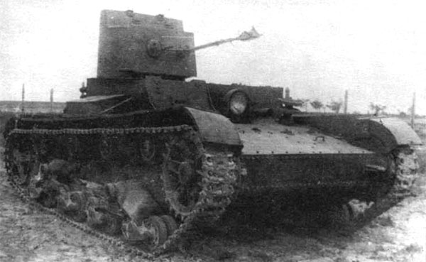 OT-26 flame-throwing tank, front view